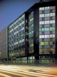 Headquarter of EADA in Barcelona